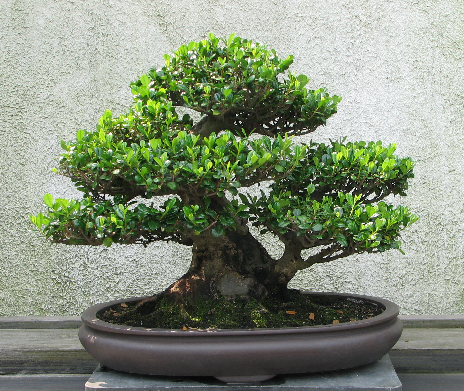 A Eurya (Eurya emarginata) bonsai on display at the National Bonsai & Penjing Museum at the United States National Arboretum. According to the tree's display placard, it has been in training since 1970. It was donated by Susumu Nakamura. This is the "back" of the tree.